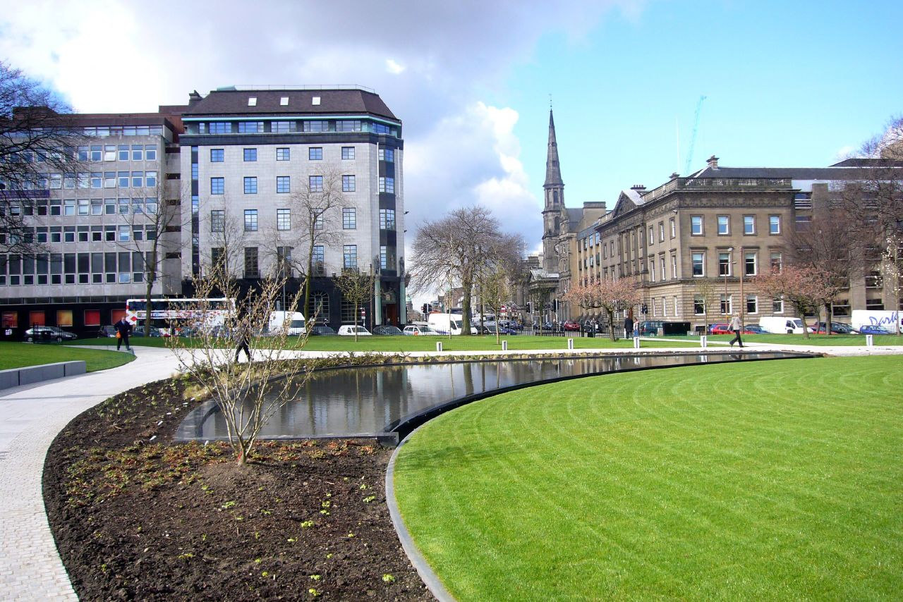 St Andrew's Square. The large white building on the corner of St. Andrew Square and George Street is 12-13 St. Andrew Square - the Guardian Royal Exchange building.